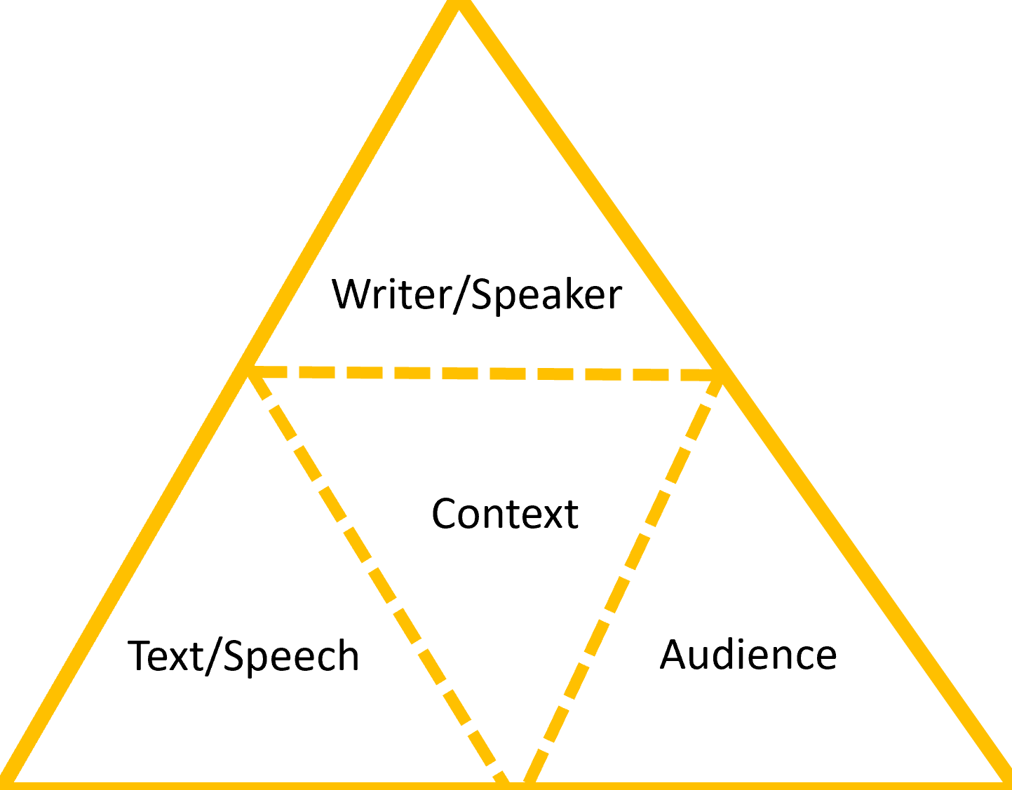 The rhetorical tetrahedron is a tool used to show that pathos, logos, and ethos come together with context to come up with a whole rhetorical stance